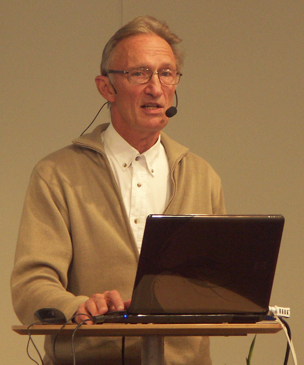 Swedish physician Töres Theorell.